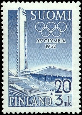 Postage stamp depicting the Helsinki 1952 Olympic Stadium